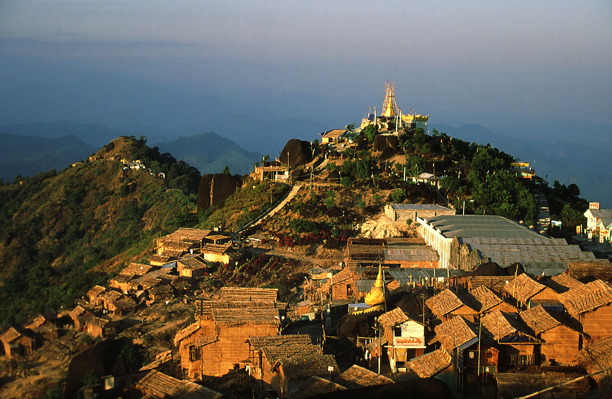 View from the Kyaikto Pagoda in Mon State in Myanmar